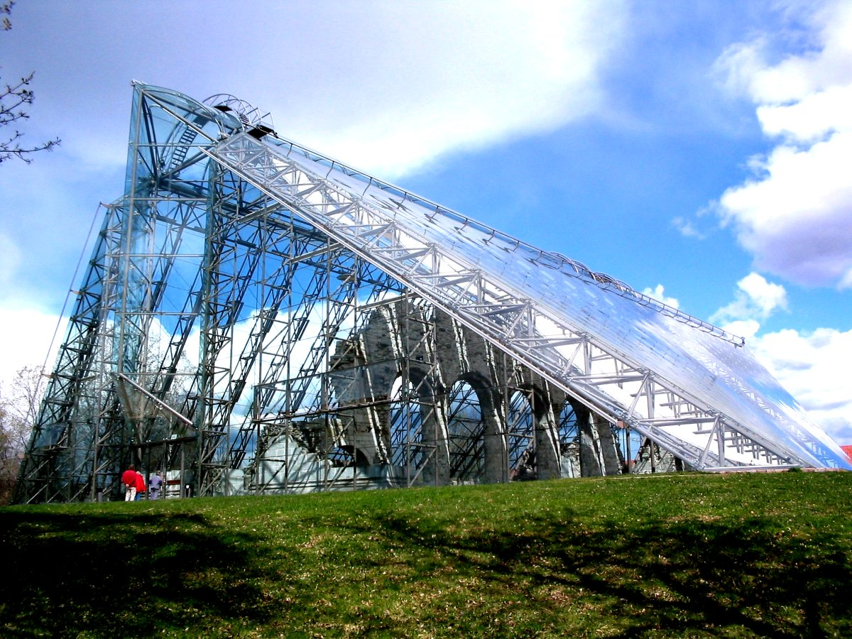 Domkirkeruinene (cathedral ruins with protective building) in Hamar, Norway. Also known as the "Double cathedral".